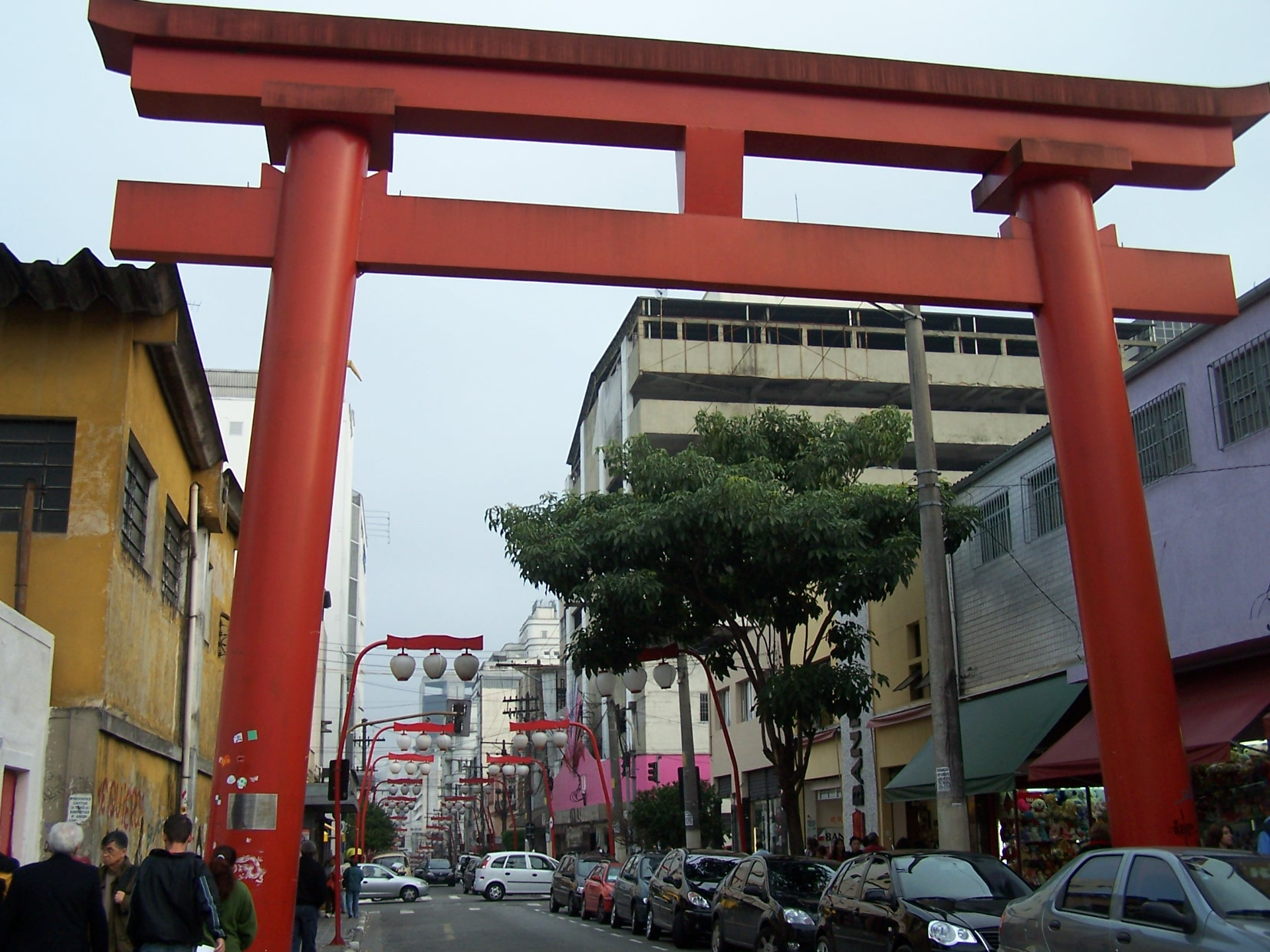 The torii that marks the entrance to Liberdade. Sao Paulo